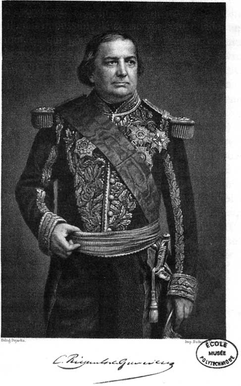 Lithograph from Ecole Polytechnique of Charles Rigault de Genouilly. Inscription: "Héliog. Dujardin Imp. Eudes [...]"